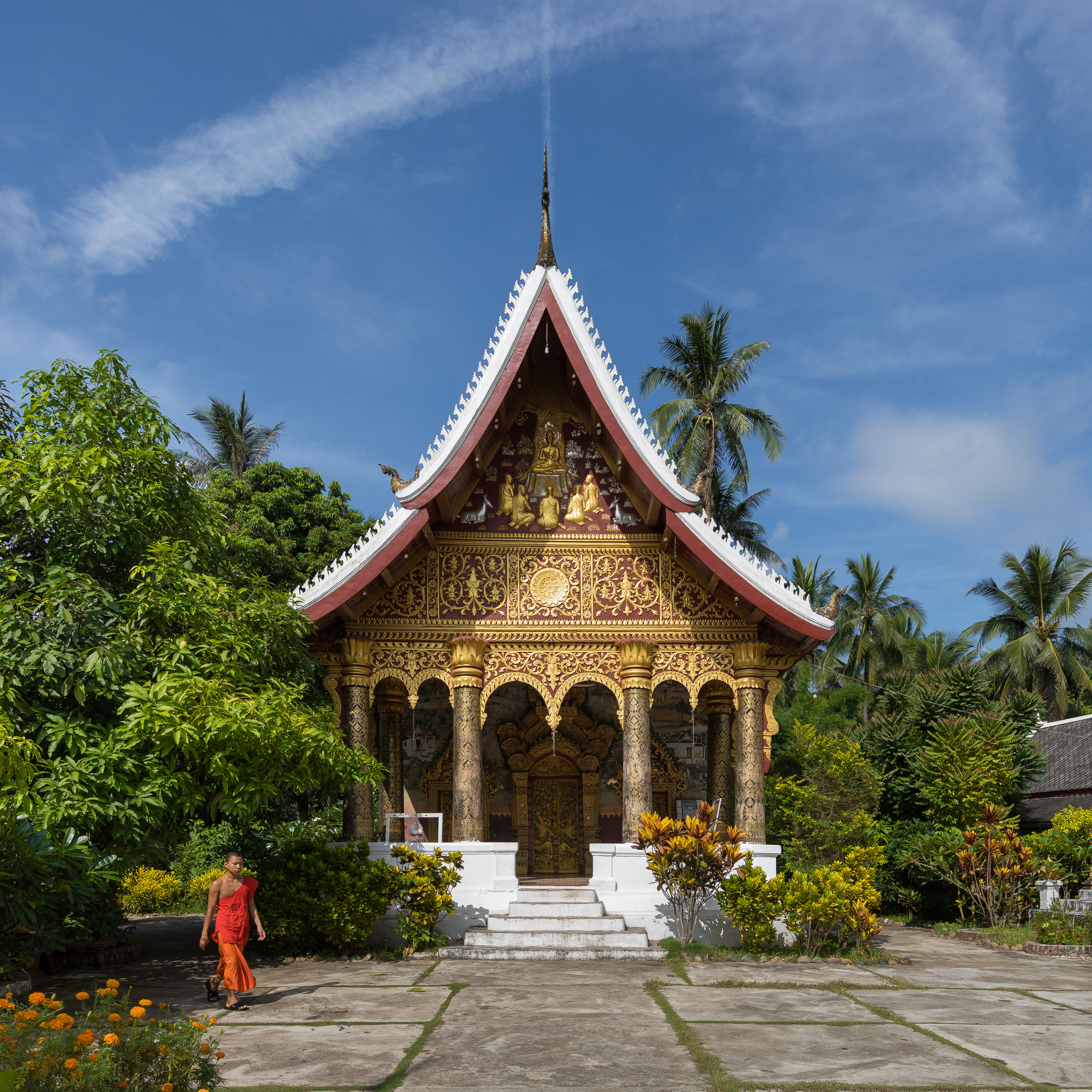 Front view of the Vat Pa Phai temple, with a young Buddhist monk walking in front, orange marigold flowers in the foreground, clouds and blue sky, in Luang Prabang (UNESCO World heritage), Laos. The long and thin white cloud over the temple, in perfect alignment, seems to make a natural prolongation of the pointed roof (6 June 2018 at 9 am)